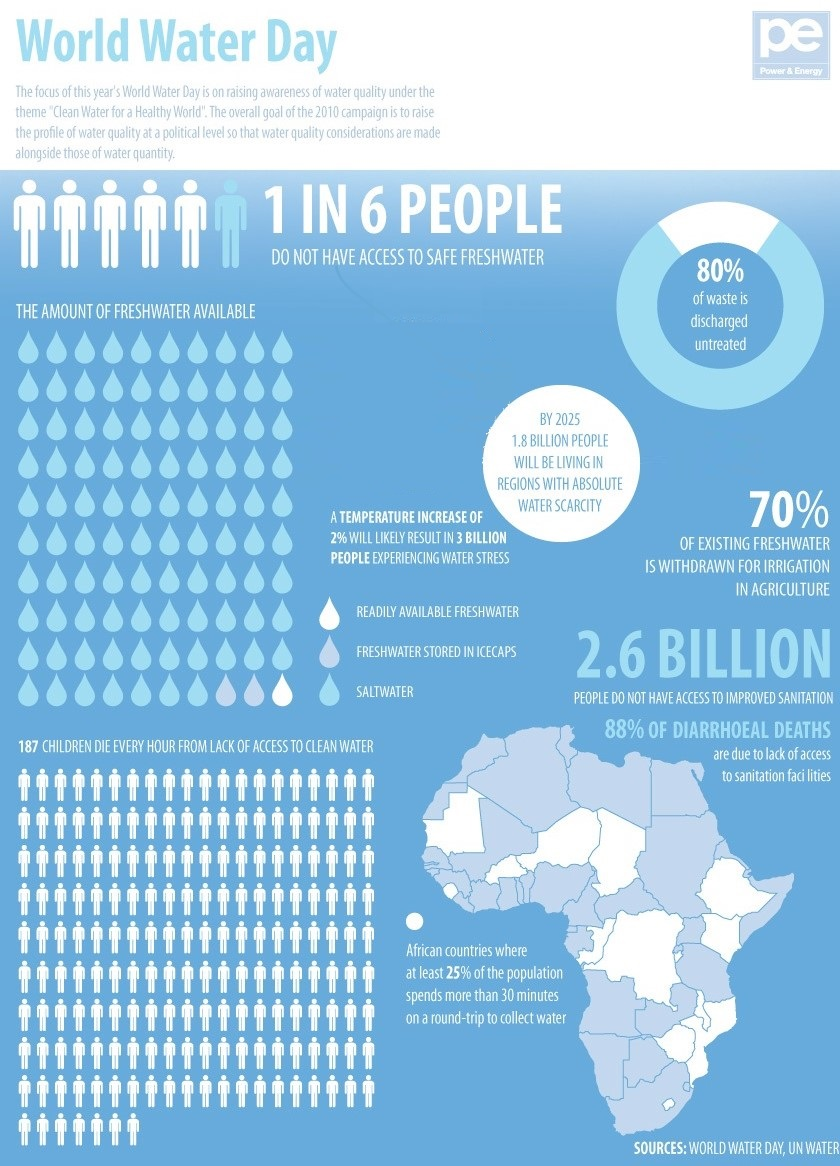 87 percent of the world's population - around 5.9 billion people - have access to clean and safe drinking-water resources, however that means almost one billion people do not. View full article at Power and Energy Africa Graphic by Tiffany Farrant